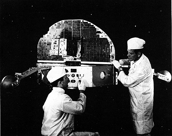 The OSO 2 satellite. The OSO 2 platform consisted of a sail section, which pointed two experiments continuously toward the sun, and a wheel section, which spun about an axis perpendicular to the pointing direction of the sail and carried six experiments. Attitude adjustment was performed by gas jets. A pointing control system permitted the pointed experiments to scan the region of the sun in a 40- by 40-arc-min raster pattern. Data were simultaneously recorded on tape and transmitted by PCM/PM telemetry. A command system provided for 70 ground-based commands. The spacecraft performed normally until the pitch gas supply neared exhaustion on November 6, 1965. The spacecraft was then placed in a stowed condition. The transmitter was commanded on intermittently until March 3, 1966, and then on a weekly schedule until June 1, 1966, when it ceased operation. For more information, see A. W. L. Ball, Spaceflight, v. 12, p. 244, 1970.